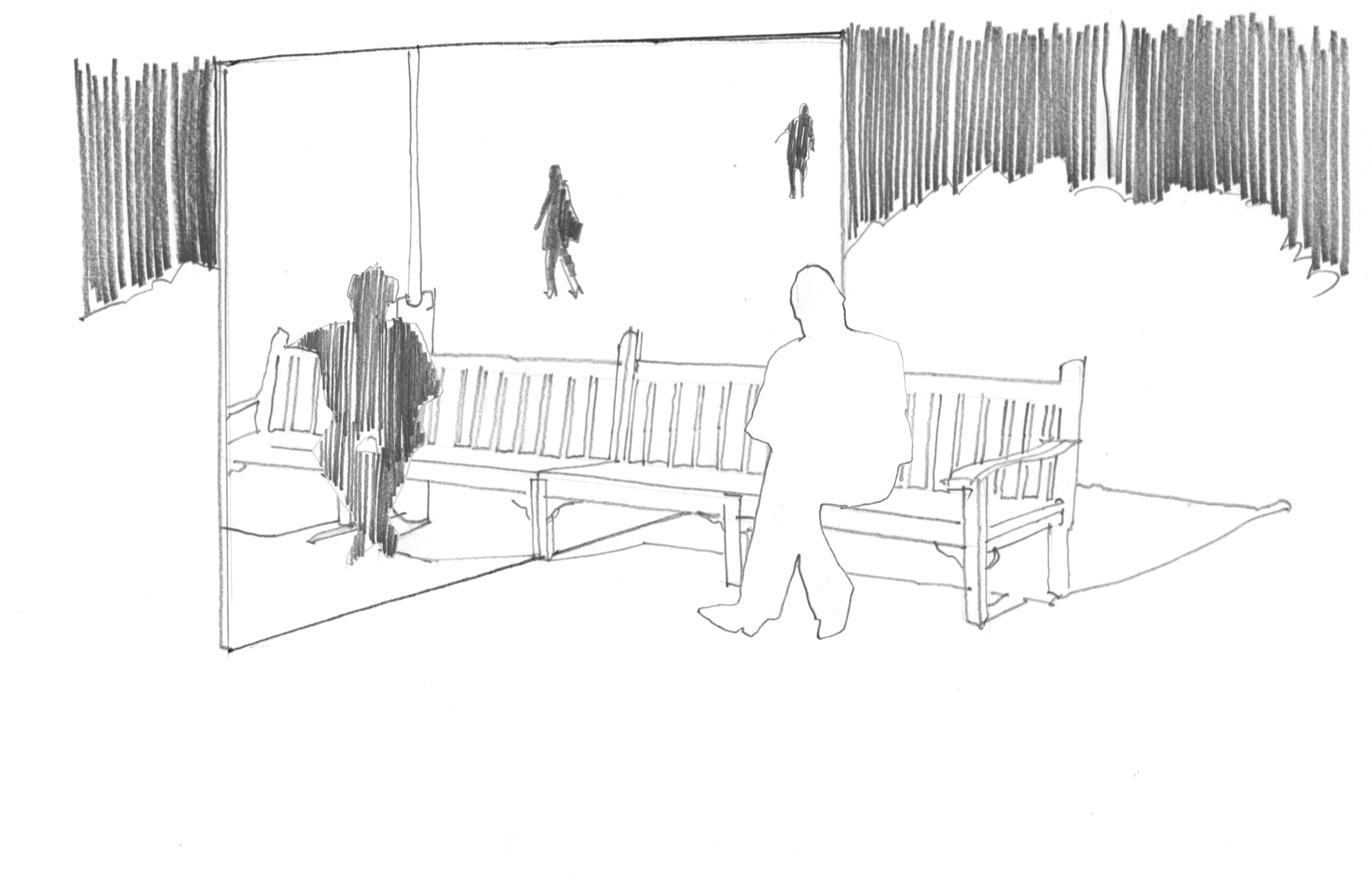 I drew this picture to illustrate the installation. I own the copyright. I drew this picture to illustrate the installation. I own the copyright.